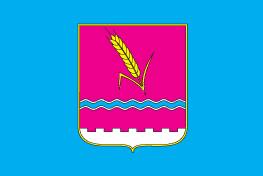 Flag of Velikopysarivskyj district (Ukraine)